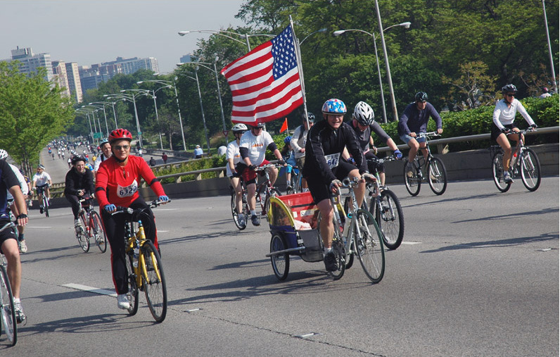 Chicago Bike The Drive, taken during [ Bike the Drive] 2005.